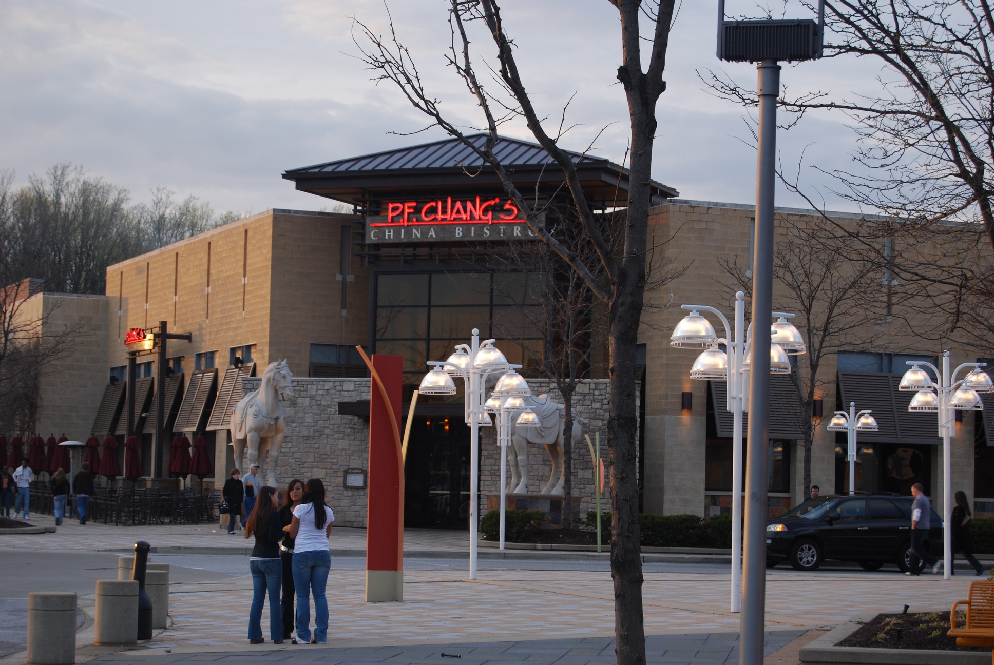 P.F. Changs at The Mall in Columbia